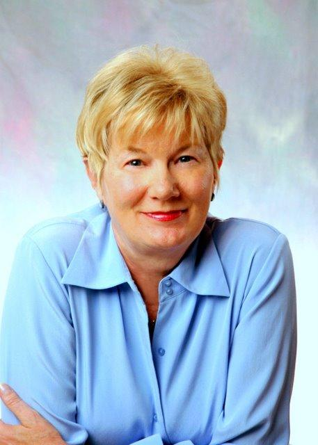 Studio portrait of the author Jill Alison Hart